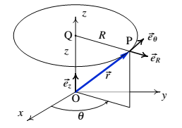 Coordenadas cilíndricas